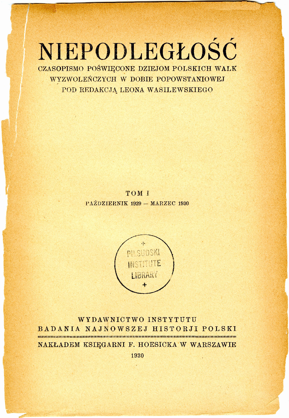 Title page of the first issue of the "Niepodległość" magazine from the Jozef Pilsudski Institute of America library